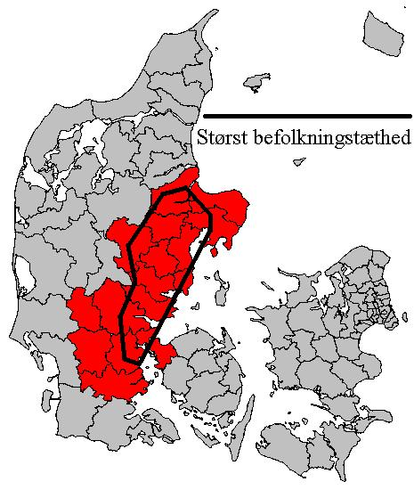 East jutland metropolitan